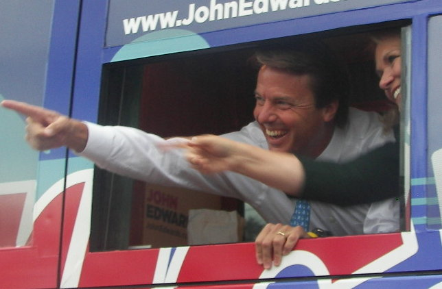 Photo by George P. Stern